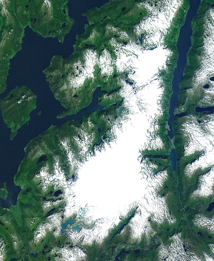 Satellite image of the Folgefonna glaciers in Hordaland county, Norway.